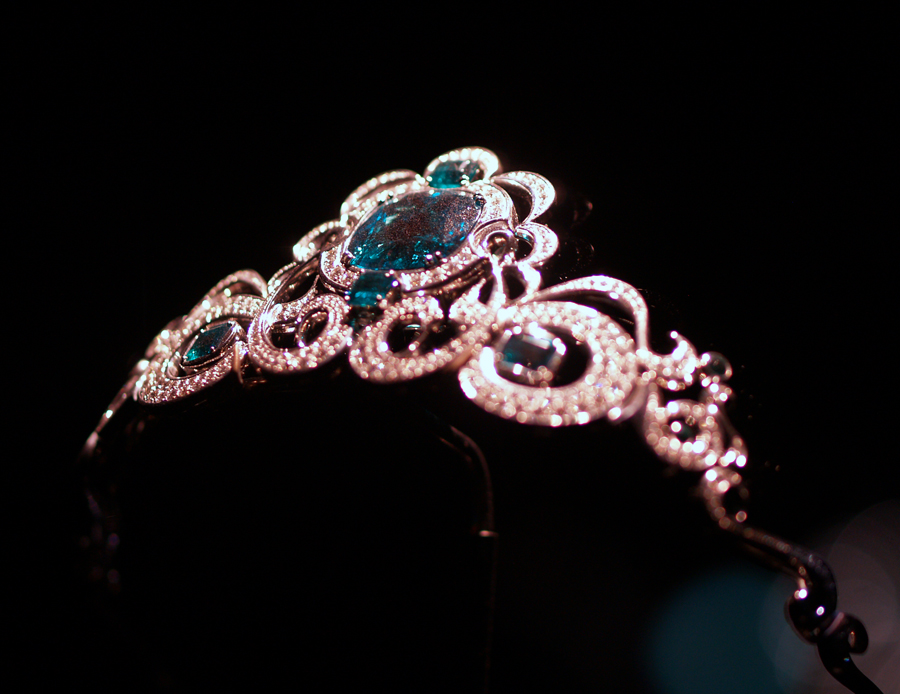 Emerald and Diamond Tiara: Designed and created by Ernesto Moreira Houston, TX 2005 Platinum tiara with (42.4 carats) large center emerald, (7.56 carats) side emeralds and (7.89 carats) of pave diamonds. Wikipedia Loves Art at the Houston Museum of Natural Science This photo of item # [1] at the Houston Museum of Natural Science was contributed under the team name "Assignment_Houston_One" as part of the Wikipedia Loves Art project in February 2009. Houston Museum of Natural Science The original photograph on Flickr was taken by sulla55—please add a comment to the original Flickr page whenever a use has been made on Wikipedia or another project. Project galleries on Flickr: this institution, this team